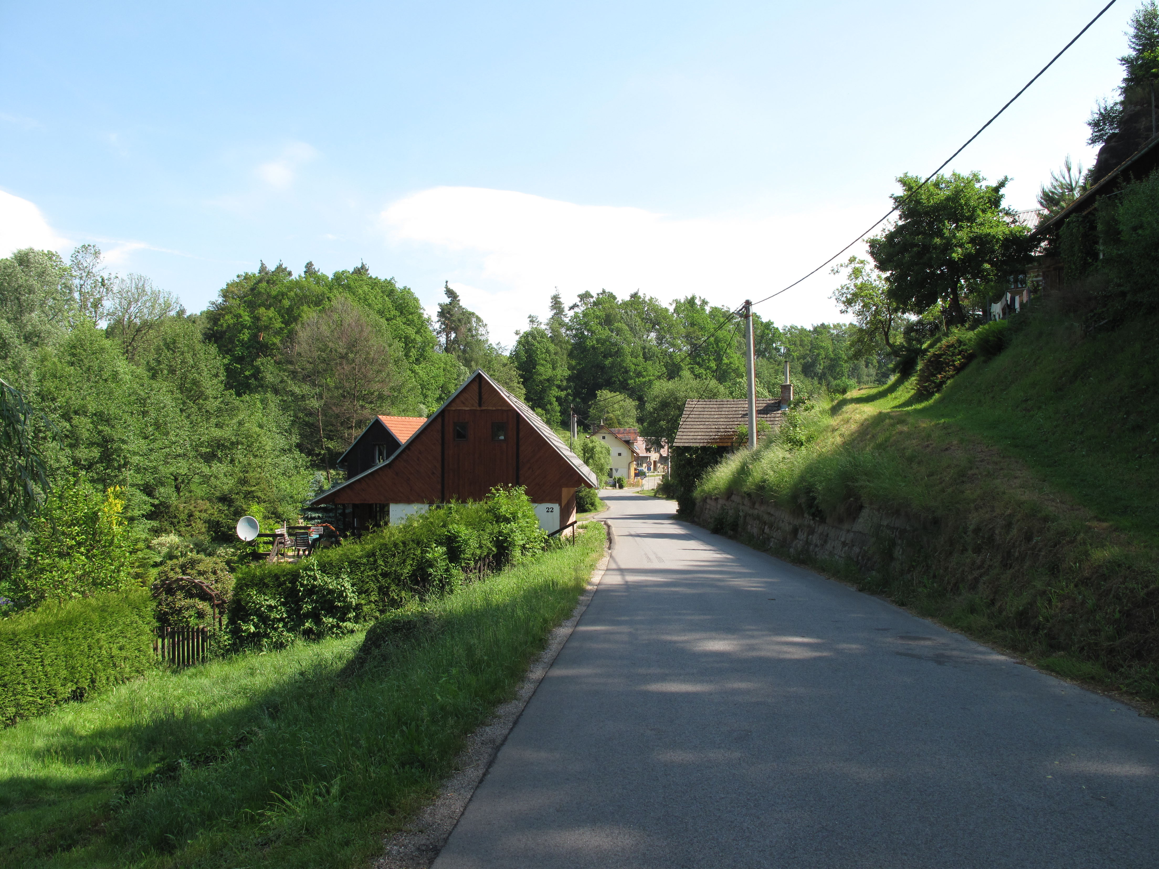 Karlovice village as seen from Sedmihorky village, Semily District, Czech Republic.